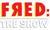 Logo from Fred: The Show